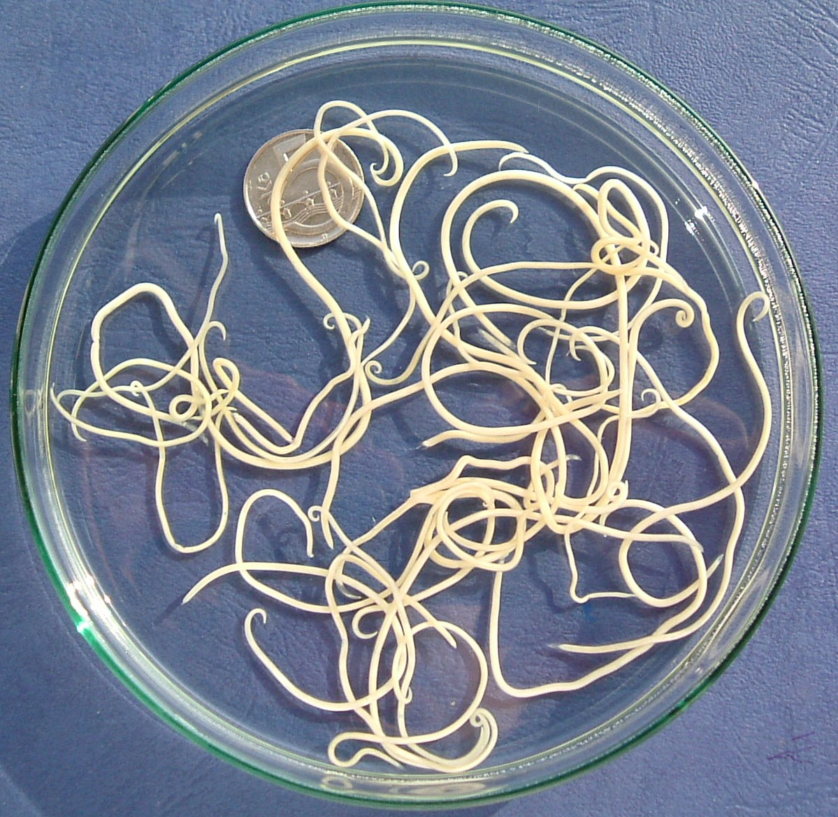 Toxocara canis - adult worms isolated from dog's feces. Diameter of 5 Czech Crown coin is 23 mm.